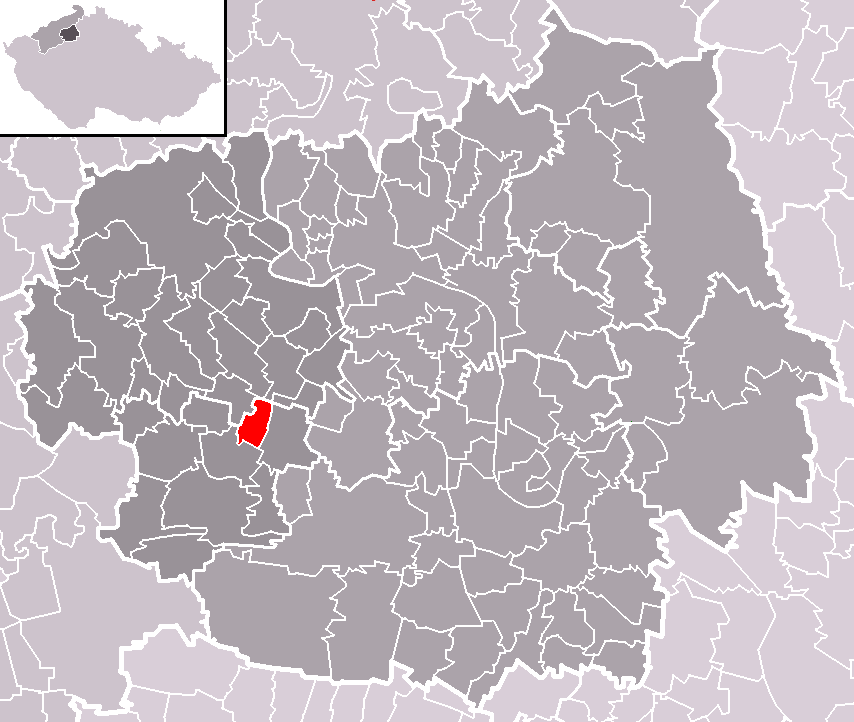 Location of Černiv municipality within Litoměřice District and administrative area of Lovosice as a Municipality with Extended Competence.